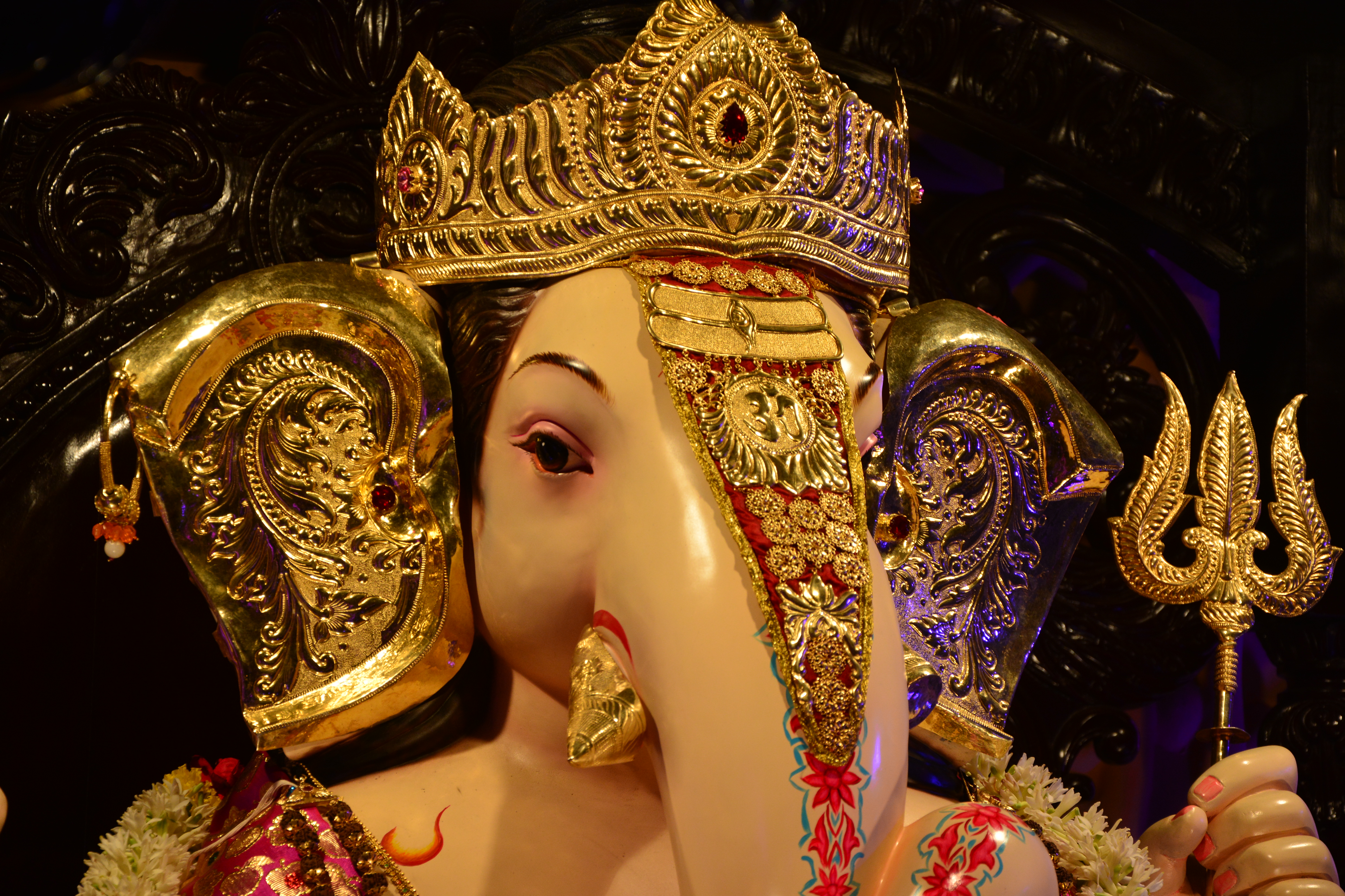 A very beautiful statue of Lord Ganesha, Seen at Pune, Maharashtra, India